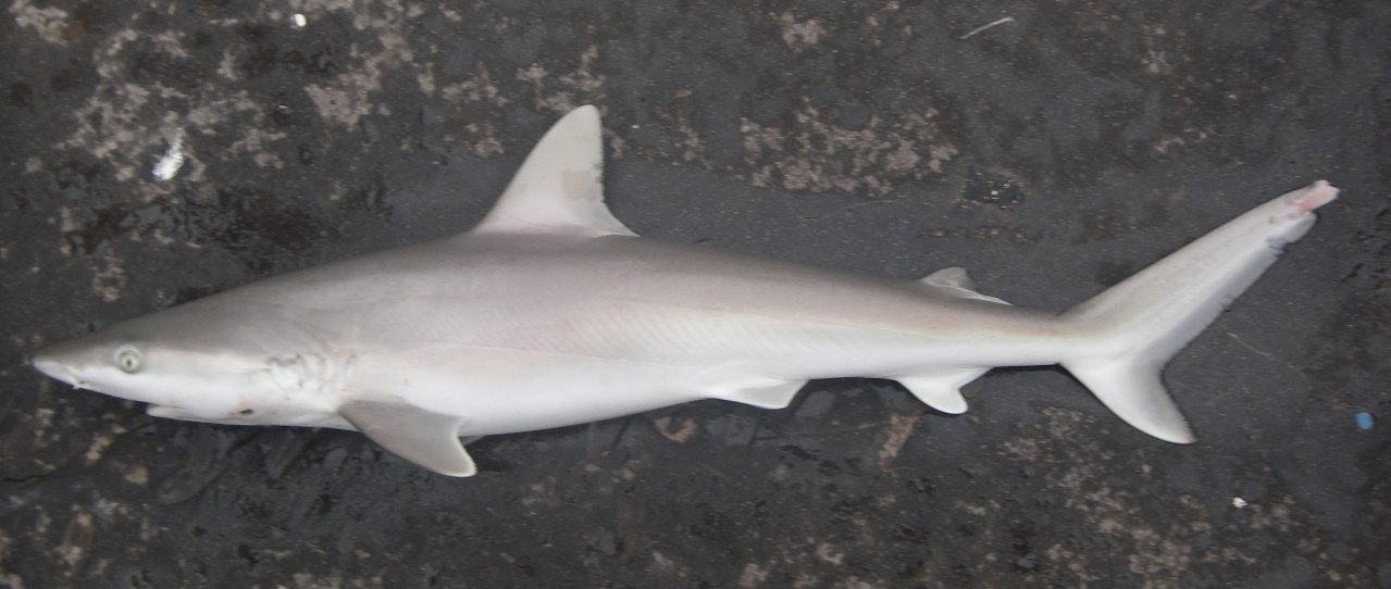 Blacknose shark (Carcharhinus acronotus) from the Gulf of Mexico (cropped from original)